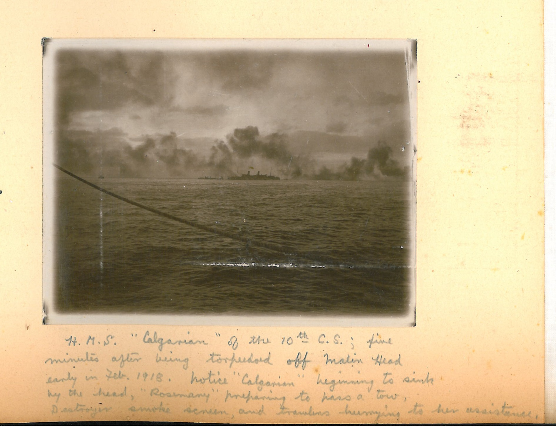 Taken from deck of HMS Poppy by Eric Murray